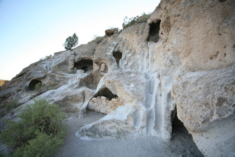 Cavates & worn steps at Tsankawi.